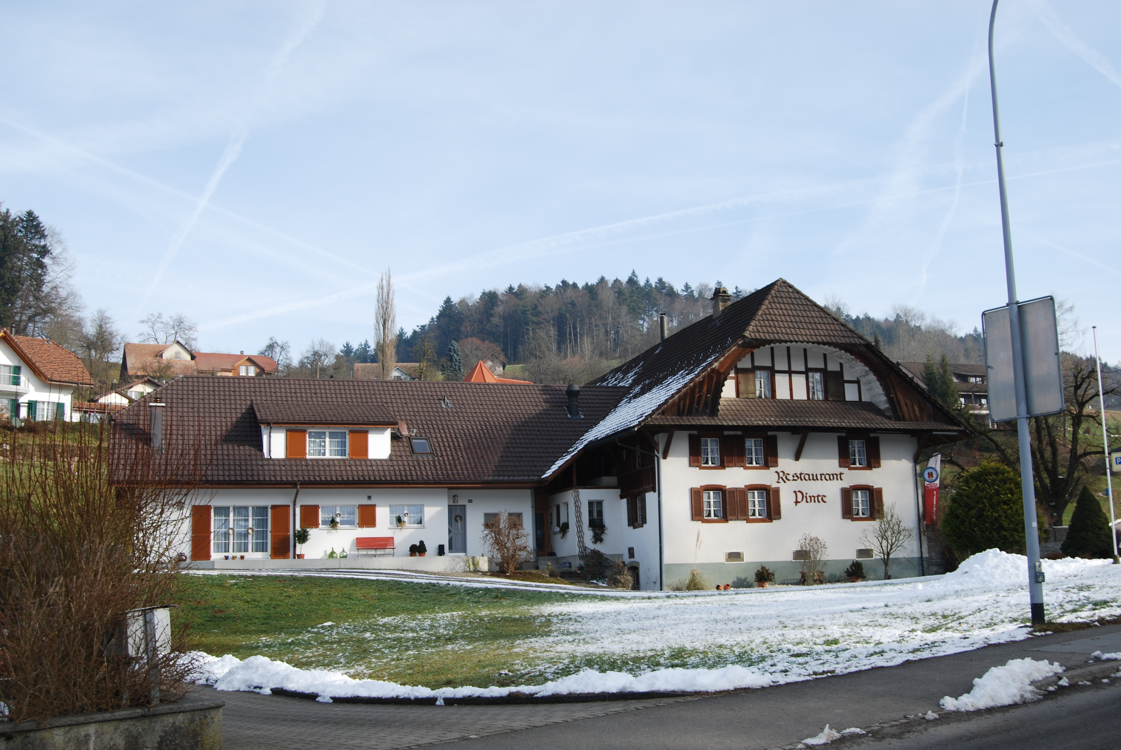 Restaurant Pinte at Walde, municipality of Schmiedrued, canton of Aargau, SwitzerlandEsperanto: Restoracio Pinte en Walde, komunumo Schmiedrued, Kantono Argovio, Svislando